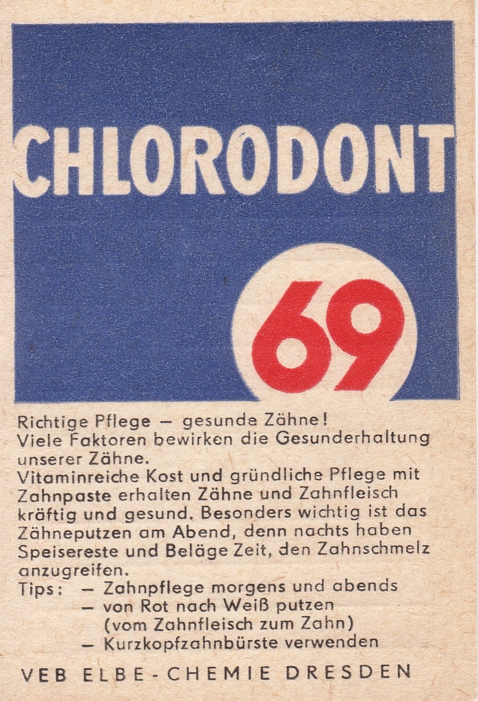 front of a dentist "next appointment notice" with Chlorodont toothpaste advertisement.